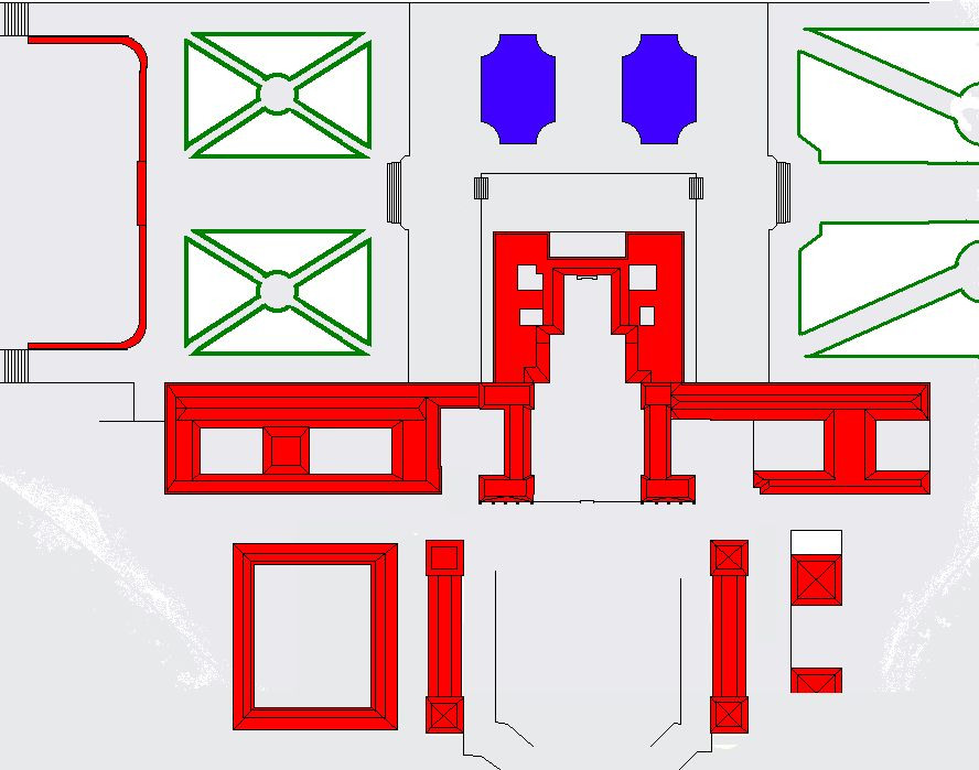 Versailles as it was after the construction of the Nrth -wing, the wing of the nobles. There is no gallery of mirrors or chapel.